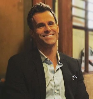 Cameron Mathison on a red carpet